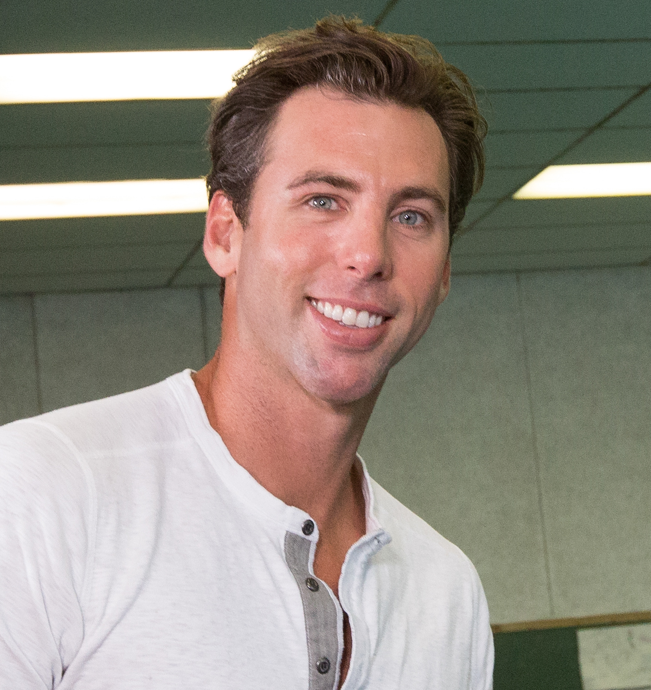 Pool Safely Safer Summer Swimming Kickoff - May 20, 2017 at the Louis L. Valentine Boys & Girls Club in Chicago